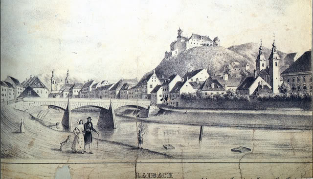 Šentjakobski most in Ljubljana on a drawing.